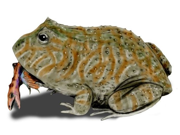 Beelzebufo ampinga, a frog from the Late Cretaceous of Madagascar, pencil drawing, digital coloring